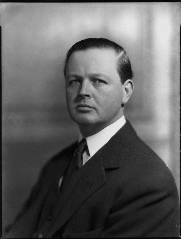 by Bassano, whole-plate film negative